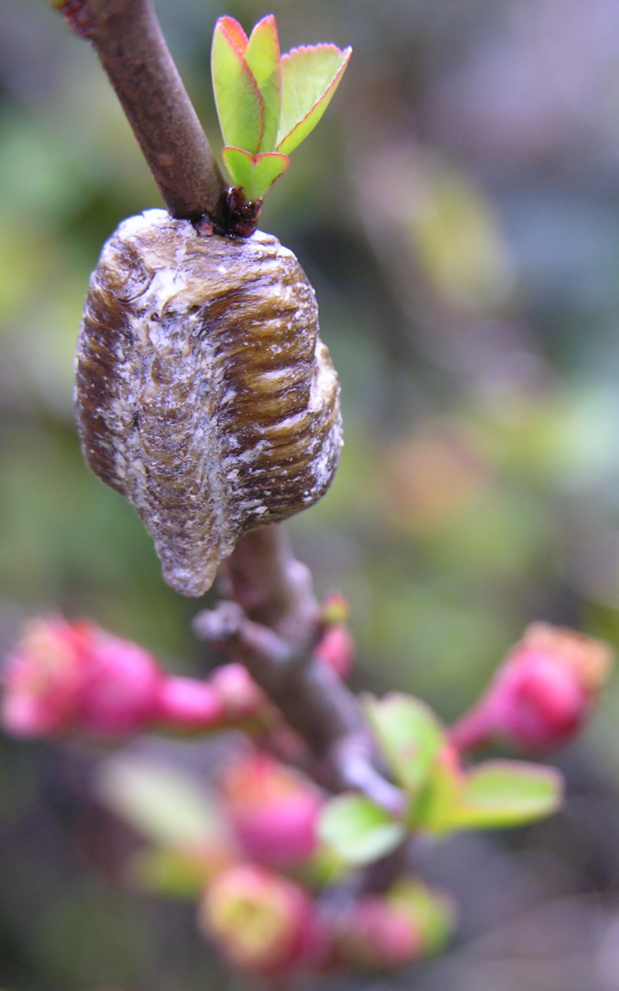 Ootheca, an egg case, of Hierodula patellifera